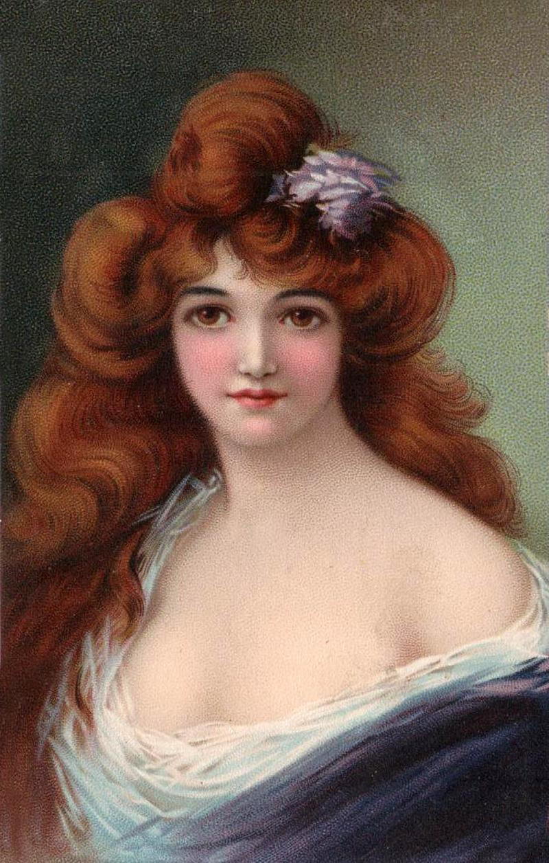 Women's portrait